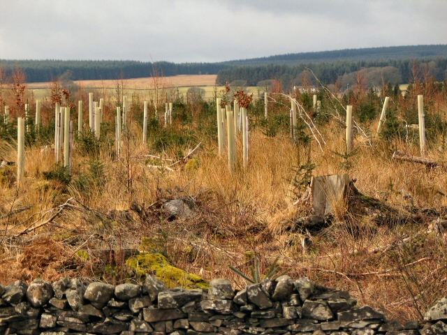 Reforestation. New growth amongst the stumps of felled trees at Moss Plantation, by the A701